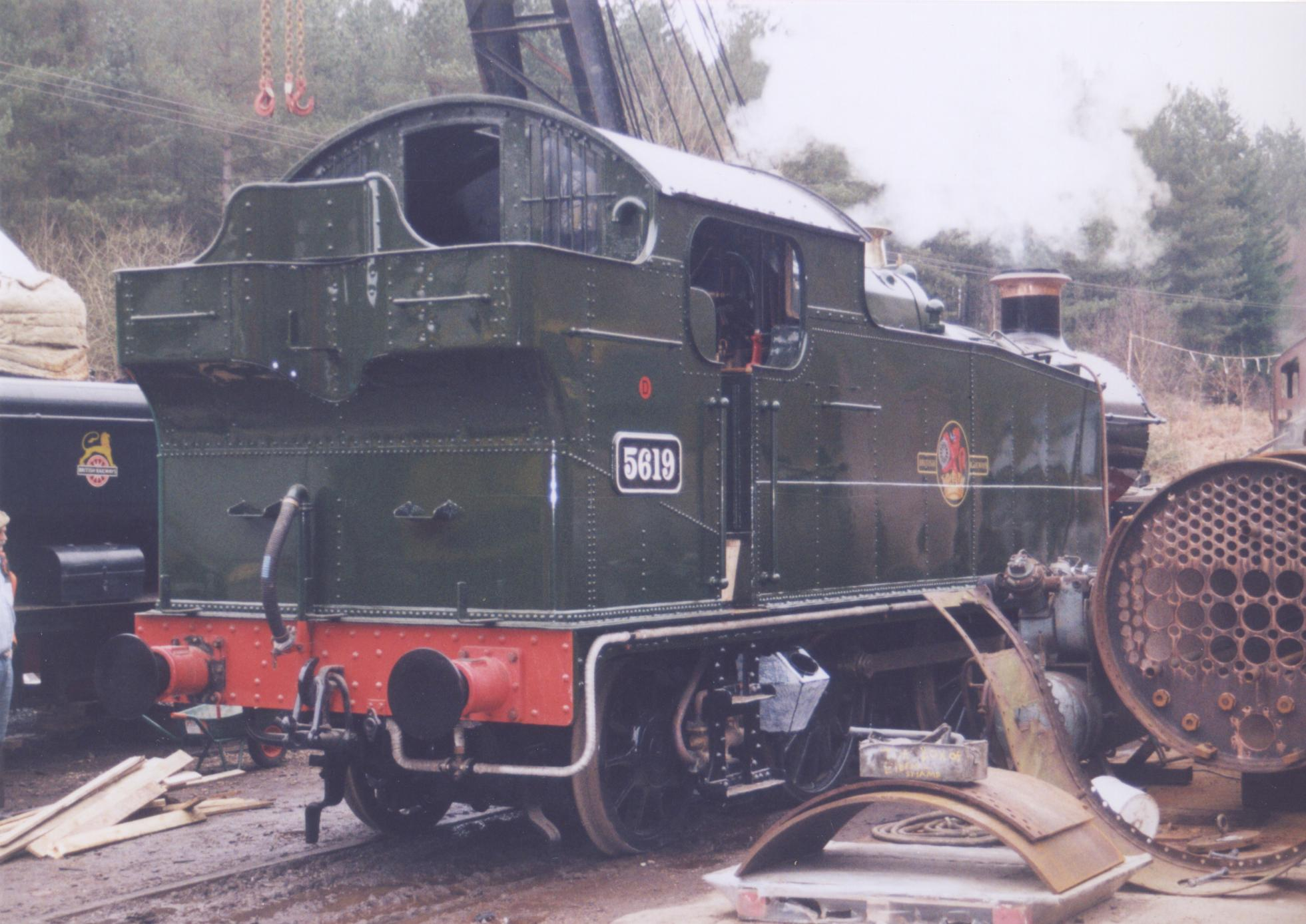 5619 undergoes its final steam tests at the Flour Mill, 15th February 2008